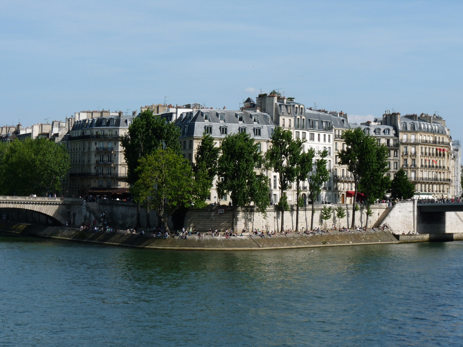 Quai des Bourbons in Paris, at the tip of the Saint-Louis Island